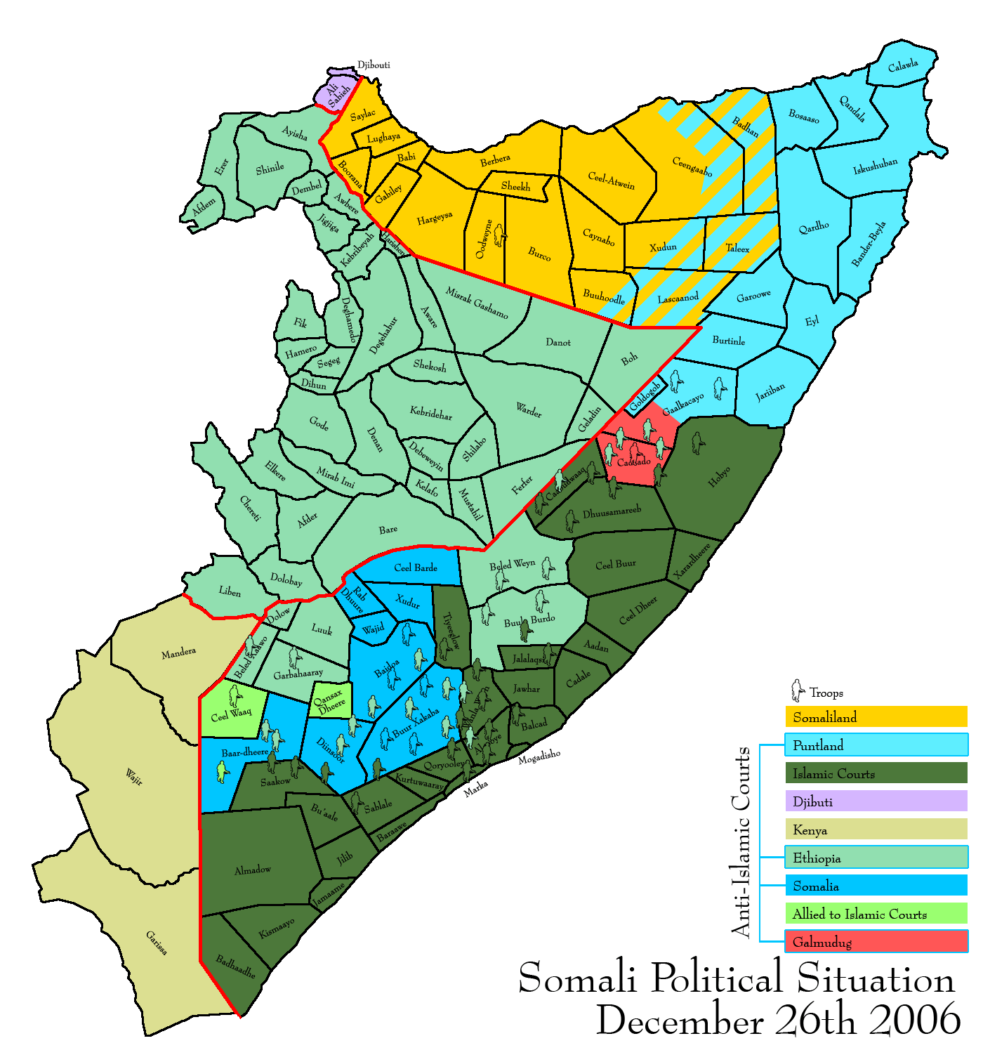 Political Situation in Somalia, December 26th 2006